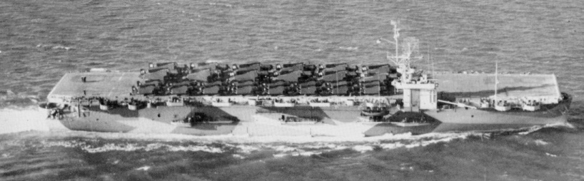 The escort carrier USS Shamrock Bay (CVE-84) underway off Norfolk, Virginia (USA) on 11 November 1944. She is painted in camouflage Measure 33, Design 10A. The 28 aircraft of Composite Squadron 42 (VC-42), 16 FM-2 Wildcats and 12 TBM-3 Avengers, are tied down between Shamrock Bay's two elevators, as she steams from Norfolk towards the Panama Canal, which she reached six days later.